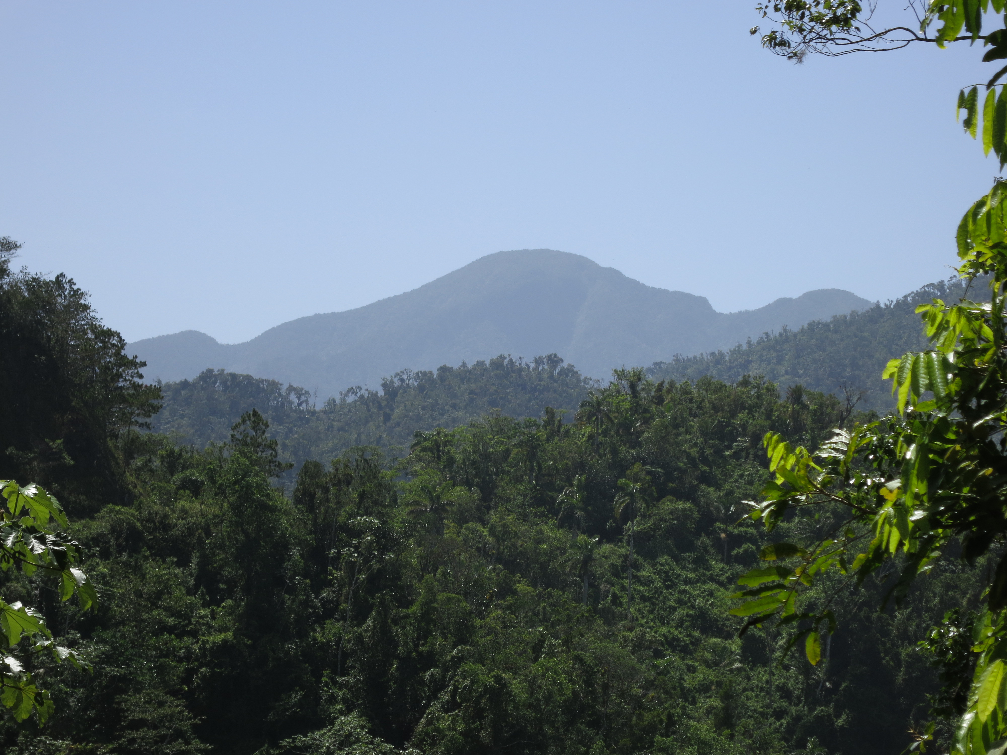 The Sierra Maestra.